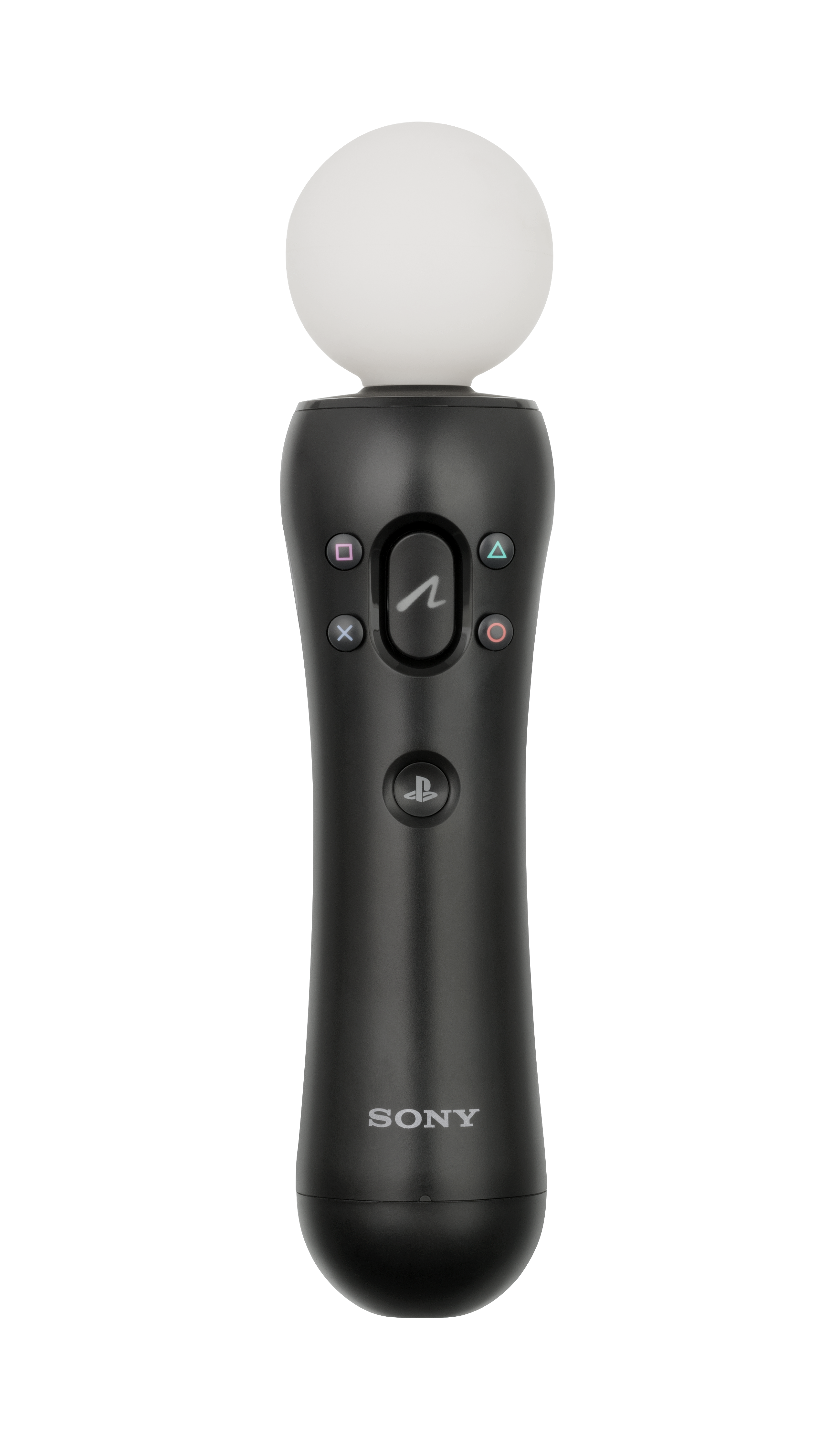 The PlayStation Move controller. A motion-sensing controller for the PlayStation 3 and PlayStation 4, needs to be used in conjunction with the PS Eye or PS4 Camera.